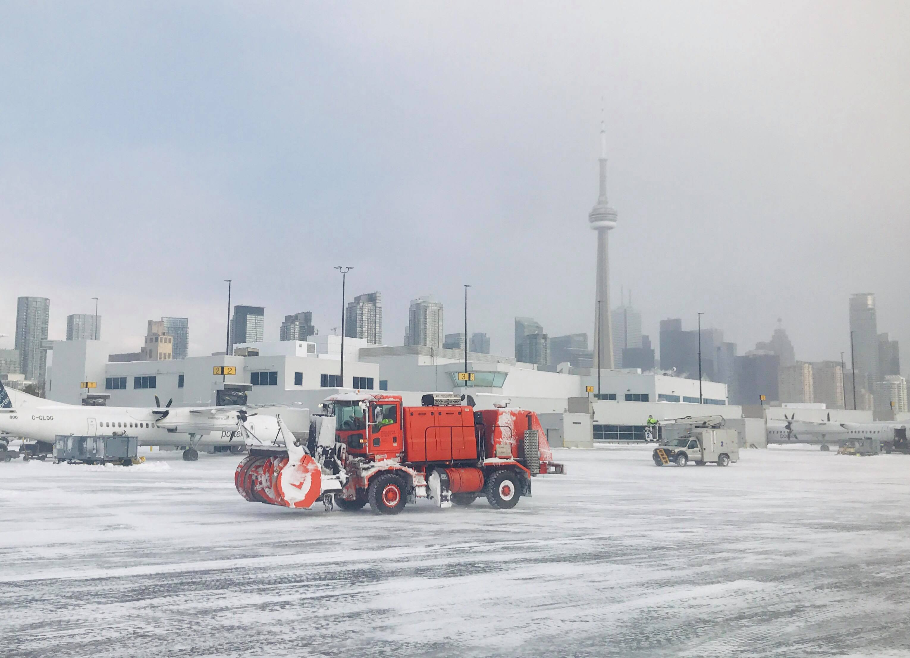 Landed in TO...you know, there might even be more snow here than Regina today.